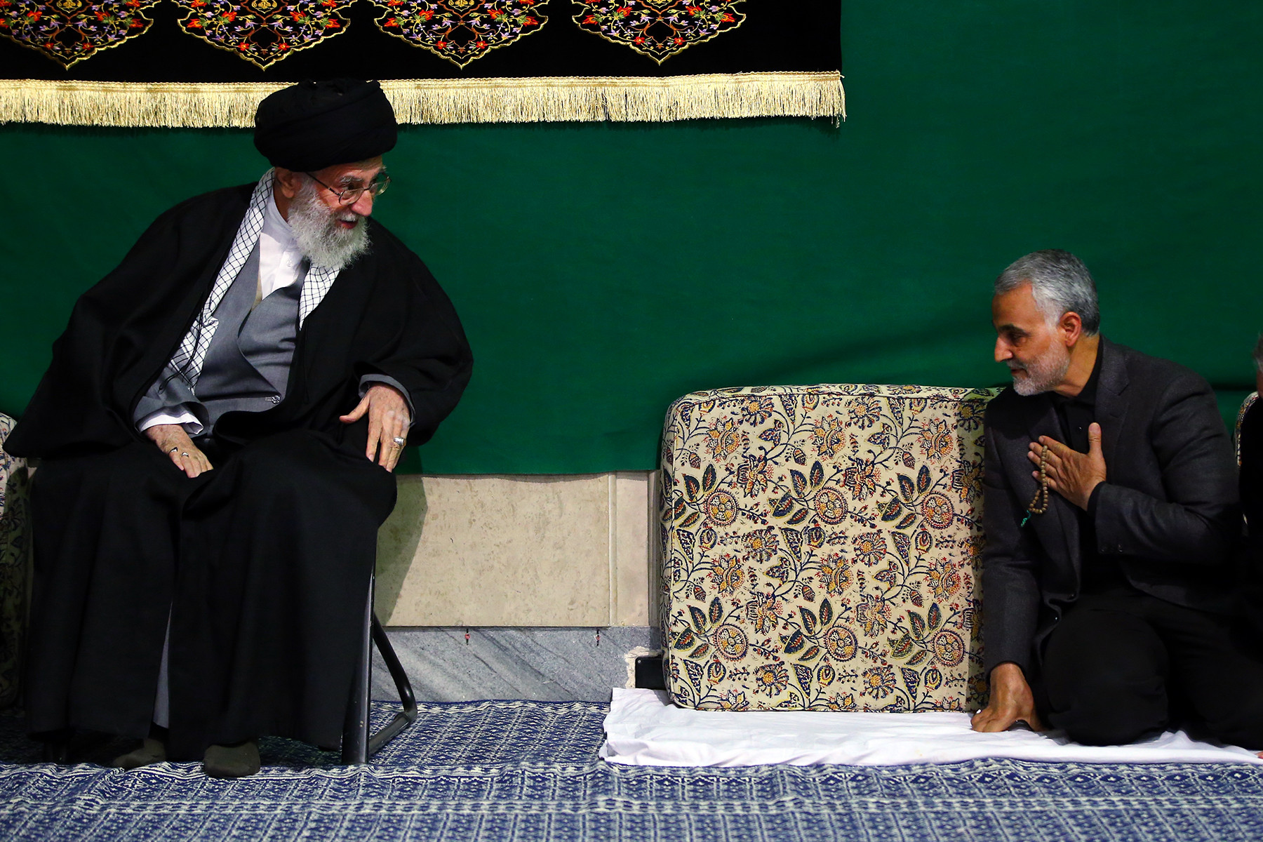 Ayatollah Sayyed Ali Khamenei And Qasem Soleimani